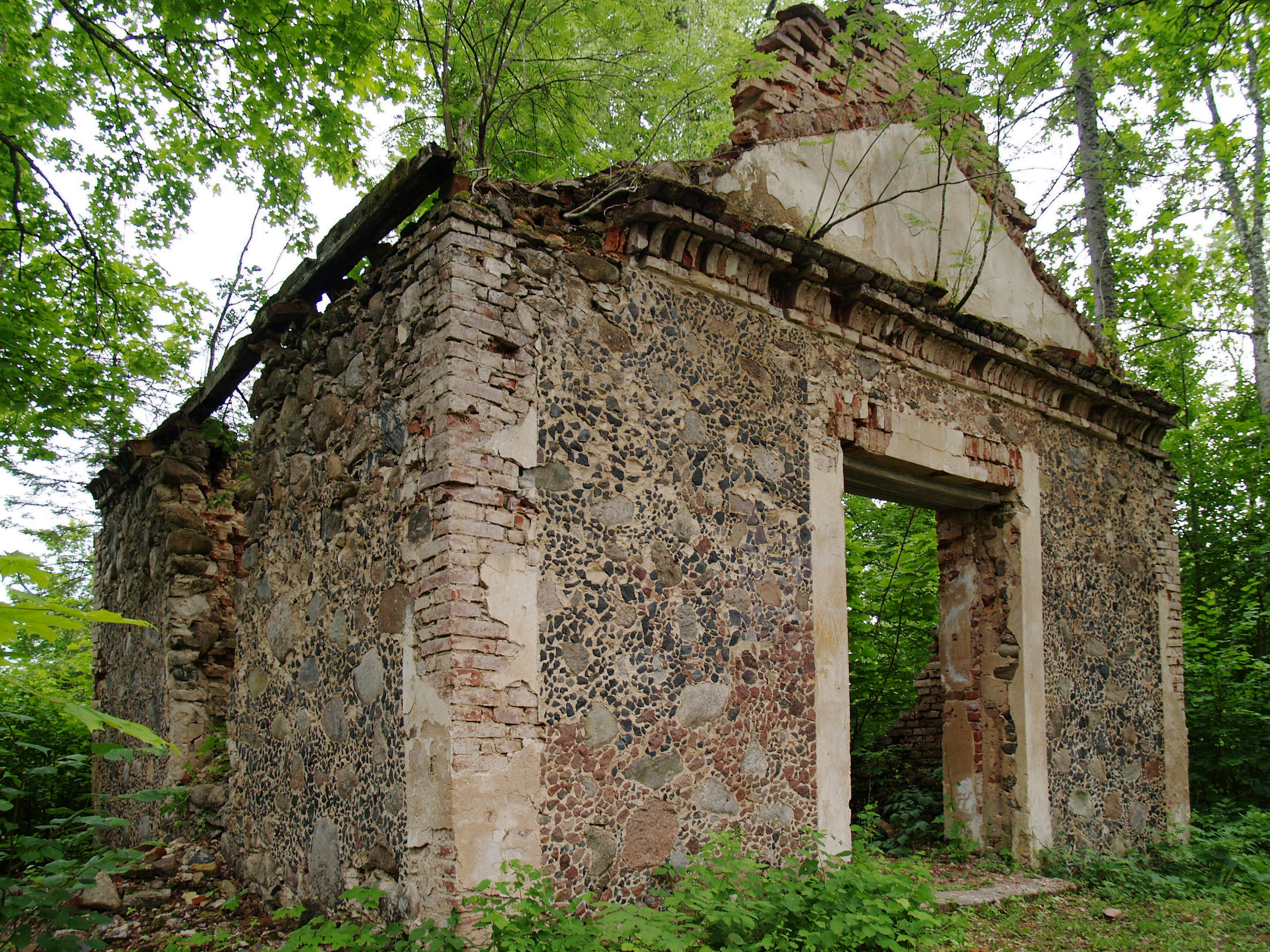 Chapel of Anrep family near the Lion of Anrep in Kärstna, Viljandi County, Estonia.